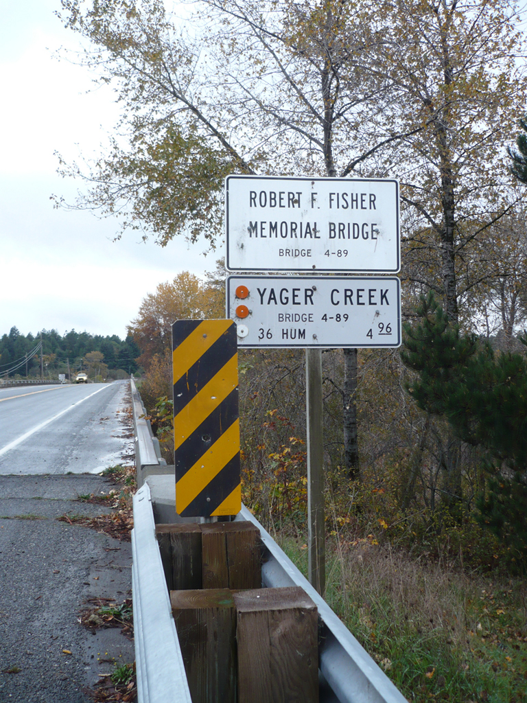 The Robert F. Fisher Memorial Bridge over Yager Creek in Carlotta, California. Yager Creek is a tributary stream of the Van Duzen River. Bridge 04-089 was built in 1968, and named by California Assembly Concurrent Resolution 151, Chapter 282, in 1969 for Robert F. Fisher who was elected to the California Assembly by the people of Humboldt County in 1926, 1928 and 1930, was the last remaining Spanish-American War veteran in Humboldt County.